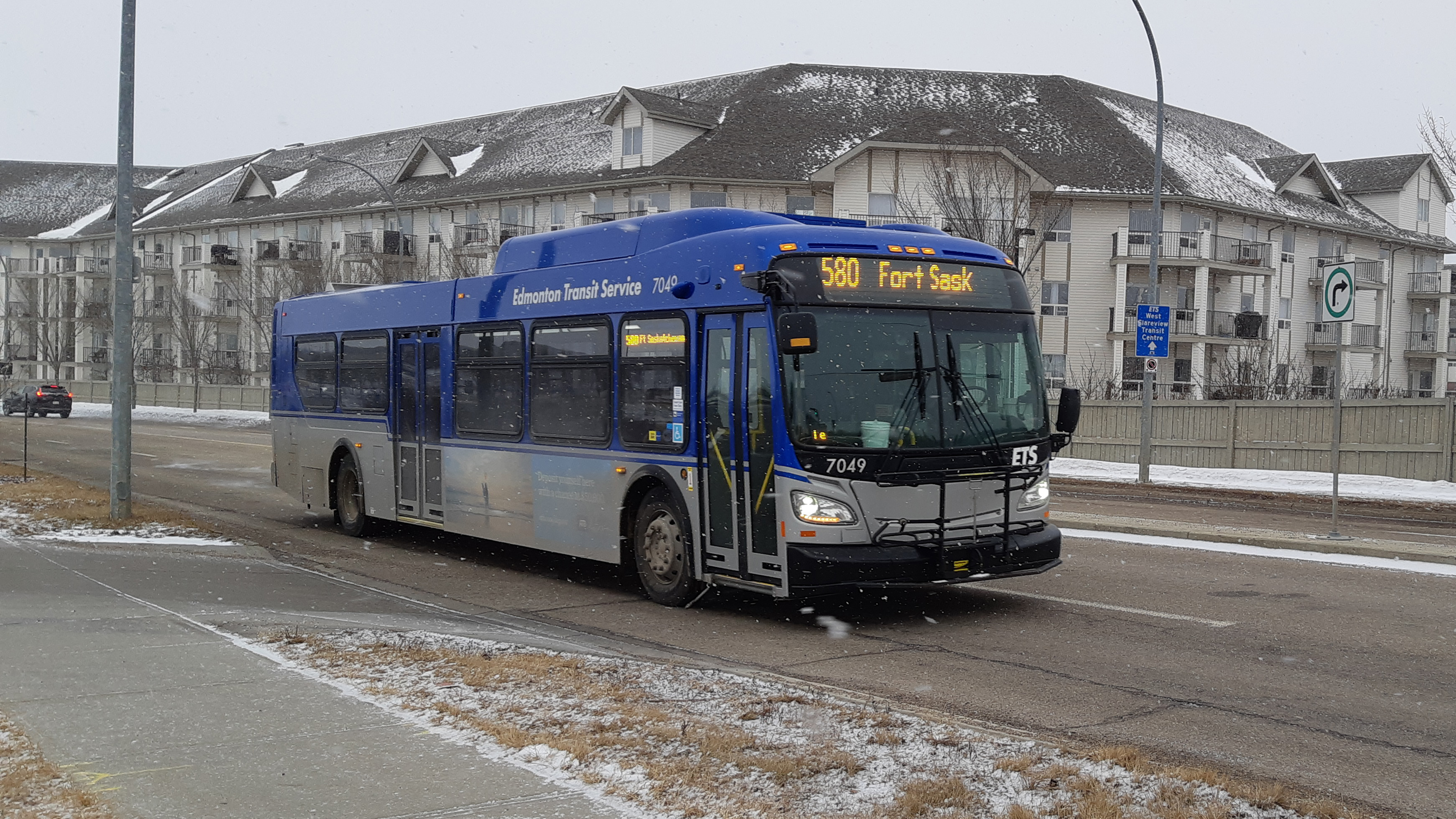 Edmonton Transit bus 7049 (a new Flyer XD40) on route 580 with destination "Fort Saskatchewan" on 142 Avenue (westbound) approaching Manning Drive having just left the West Clareview Transit Centre. Taken during light snow. Cropped from the original.